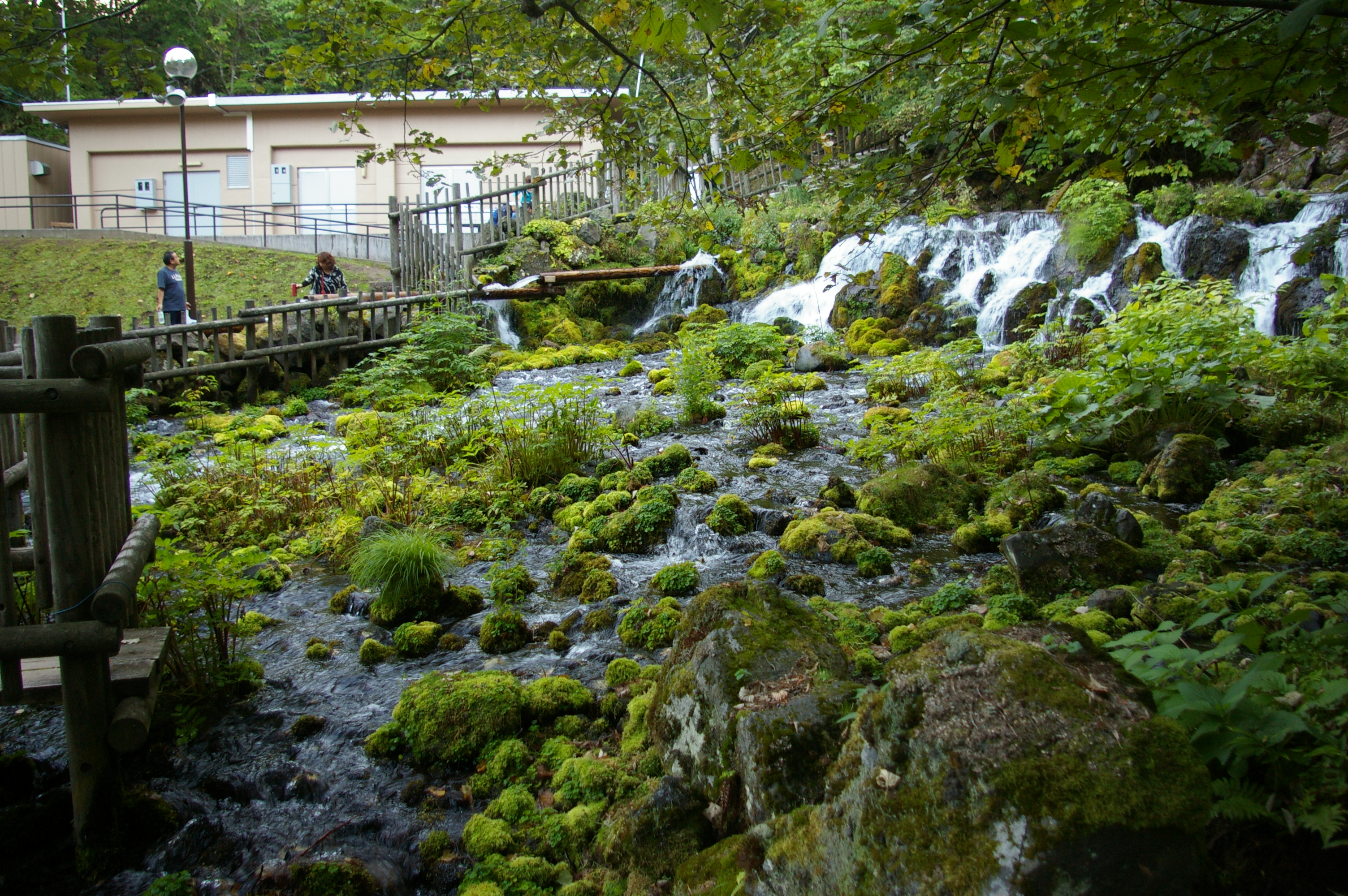 Japan: Fukidashi park in Kyogoku (Hokkaido prefecture).